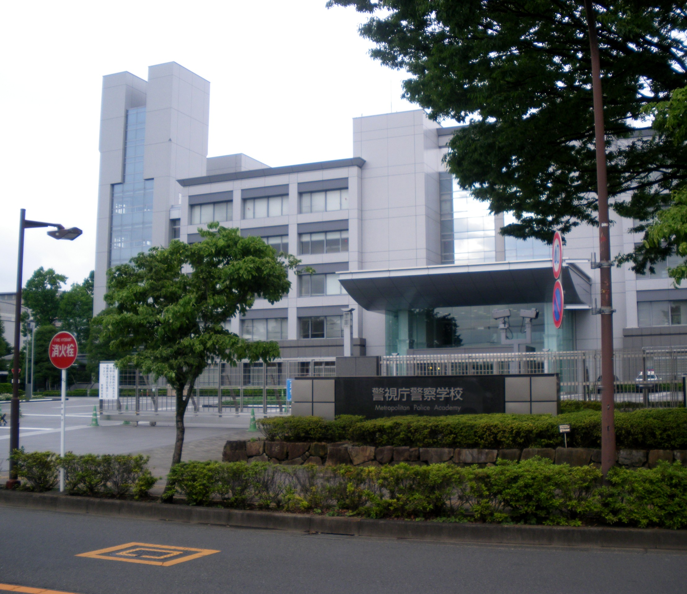 A photo of an overview of Metropolitan Police Academy,Asahicho,Fuchu city,Tokyo,Japan.